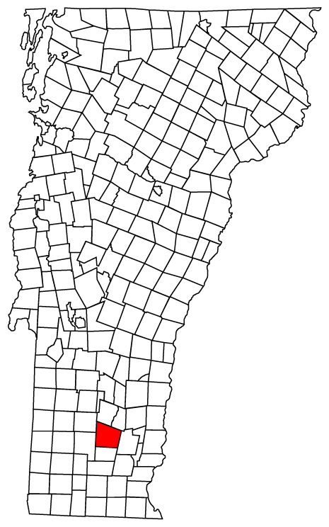 Description: Map of Vermont towns with Jamaica highlighted Source: Map created by Jared C. Benedict on 26 March 2004. Copyright: © Jared C. Benedict.